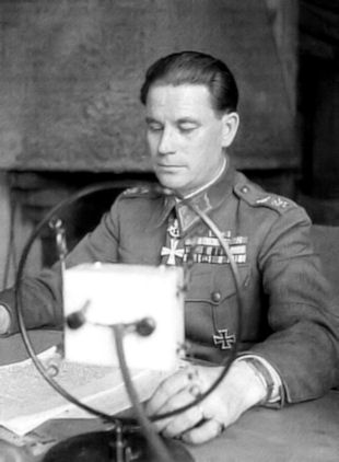 Jääkärienraalimajuri Frans Uno Fagernäs.